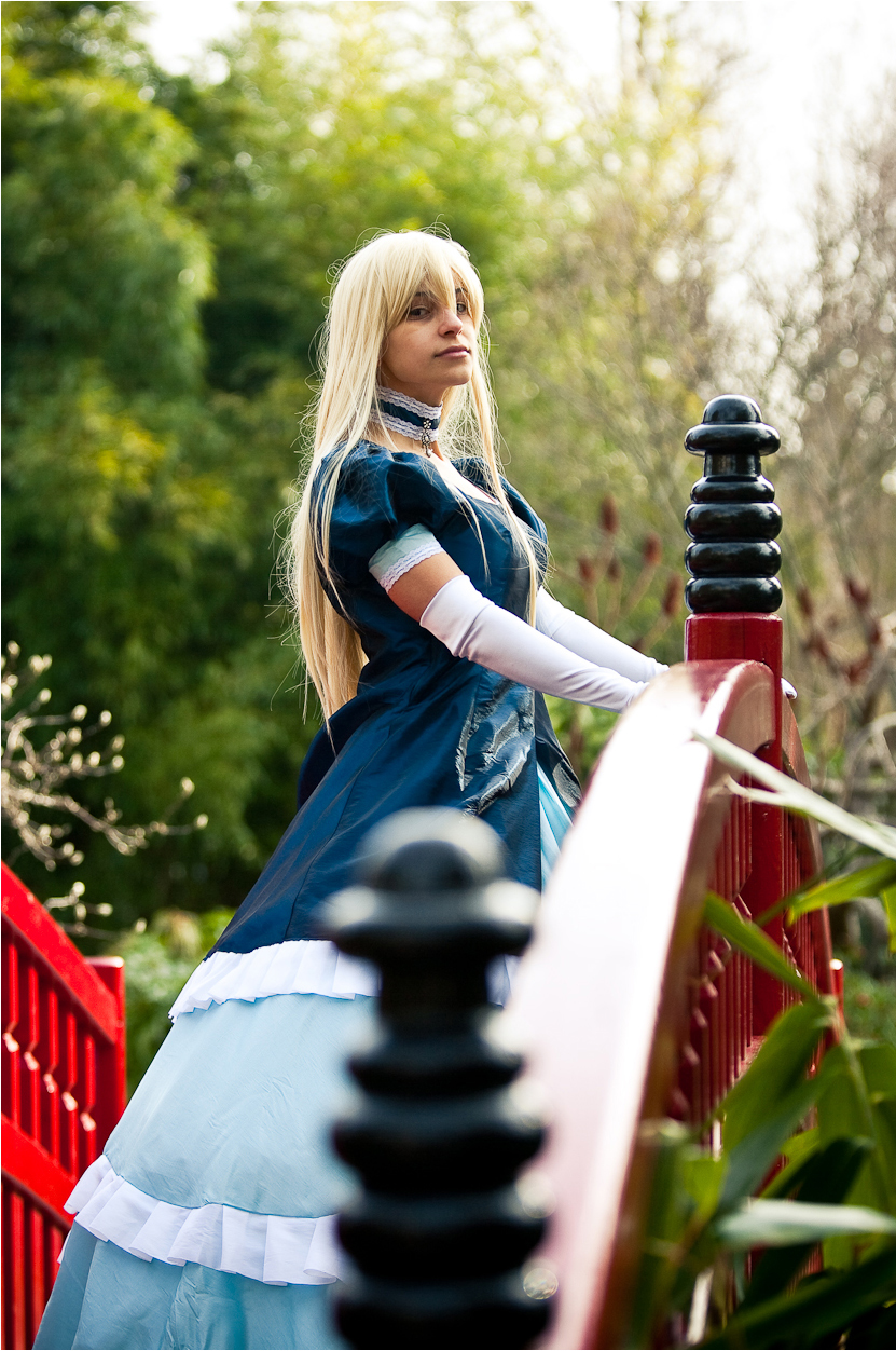 Cosplay of Tsukihime main character Arcueid Brunestud.